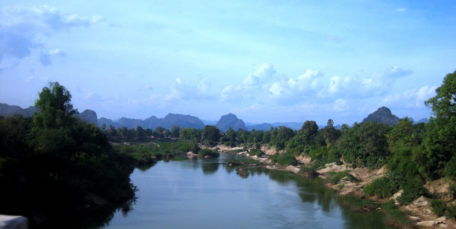 Khammouane Province